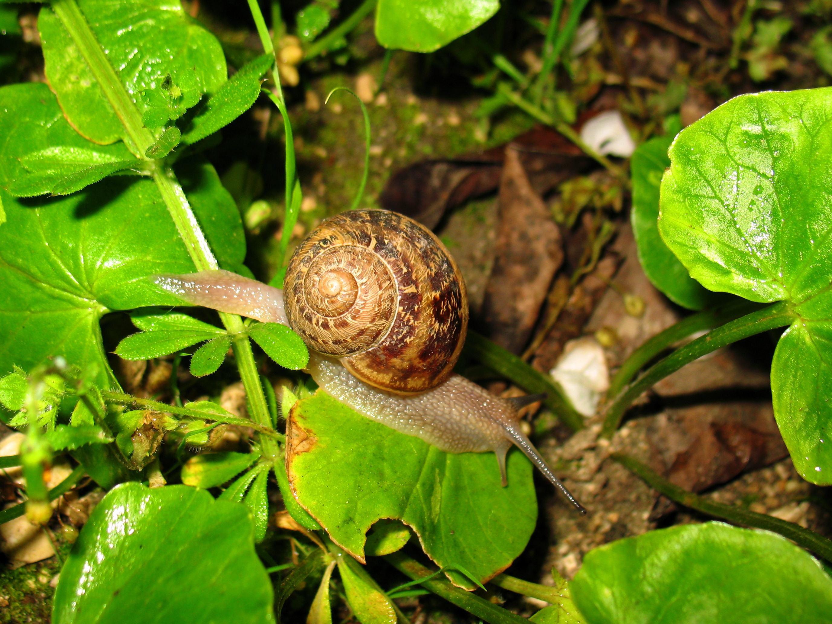 Helix aspersa in south of Italy (Rutigliano, BA).